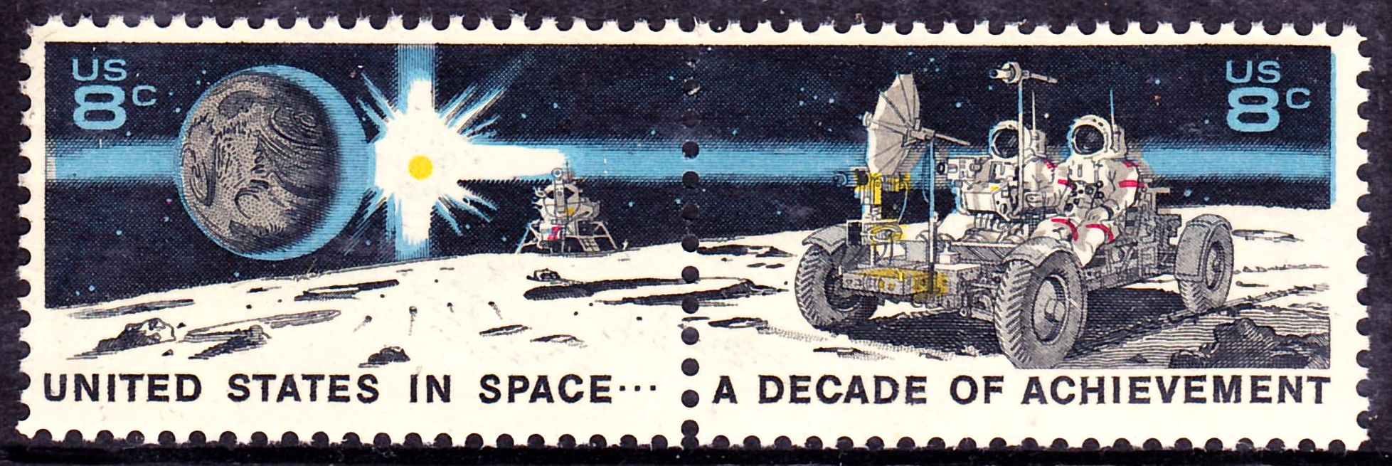 Space Achievement Decade 8c 1971 issue; shows moon landing and NASA astronauts.